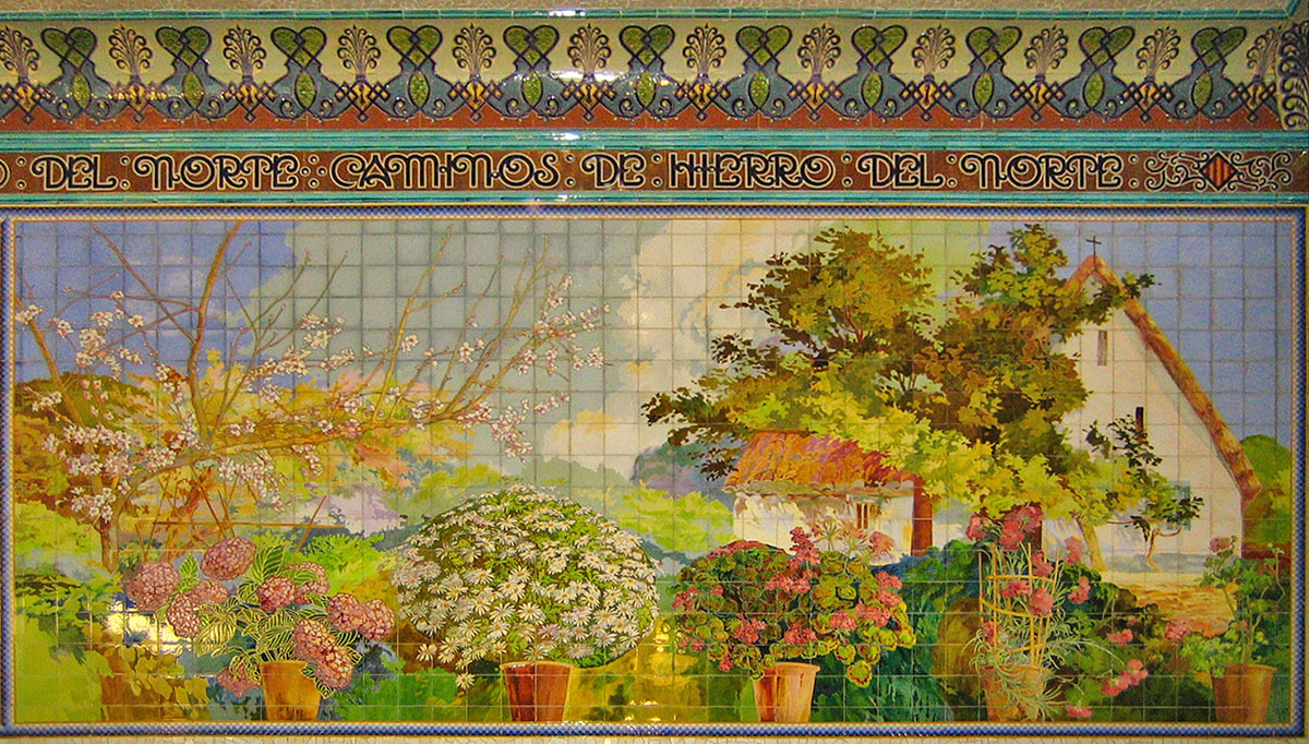 Mosaic in the information office of Valencia train station